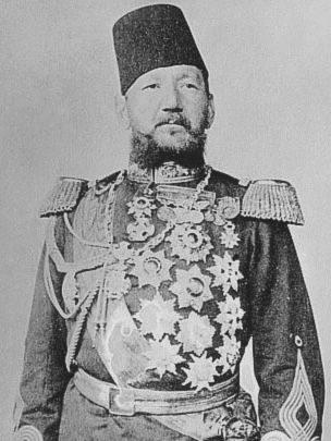 LOC Photo of Field Marshal (Müşir) Deli Fuad Pasha (1835-1931)